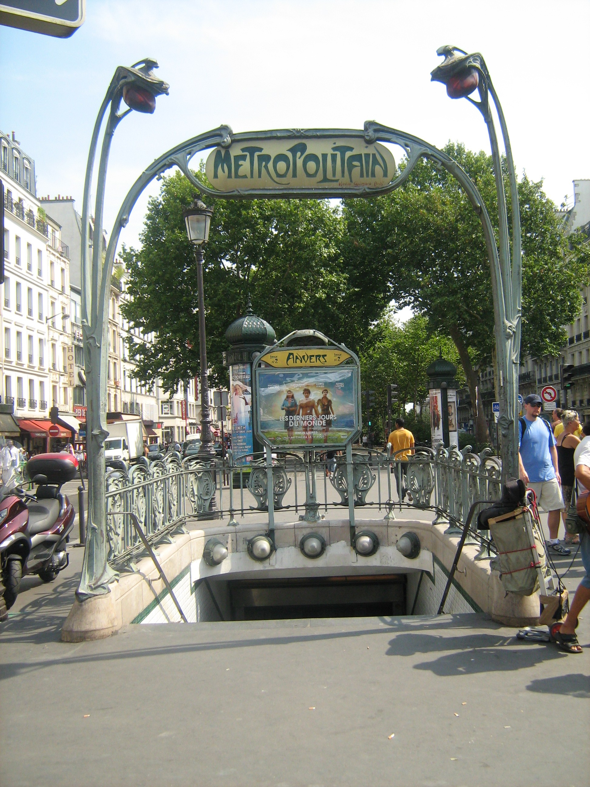 Station entrance of Anvers (line 2/ligne 2) Paris, France